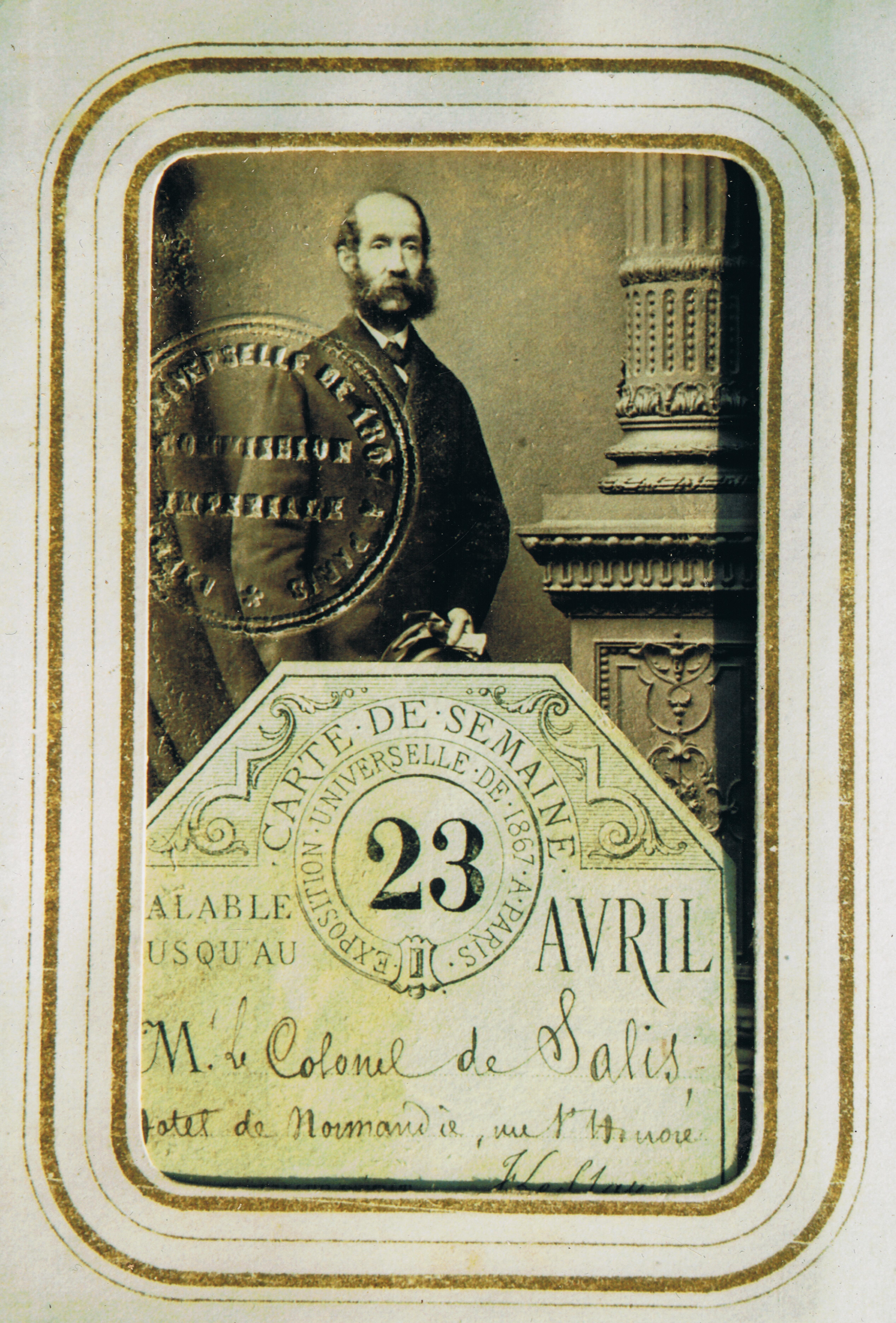 The pass of M. le Colonel de Salis' CARTE DE SEMAINE, International Exposition (1867). Colonel de Salis at the time of the International Exposition (1867) or Exposition Universelle de 1867 A PARIS valable jusqu'au AVRIL 23, when he stayed at the Hotel de normandie, rue Saint-Honoré and no doubt was there to visit his brother, William's stand for for the Australian state of Victoria. Original publication: London and Paris Immediate source: Sammlung Fane de Salis